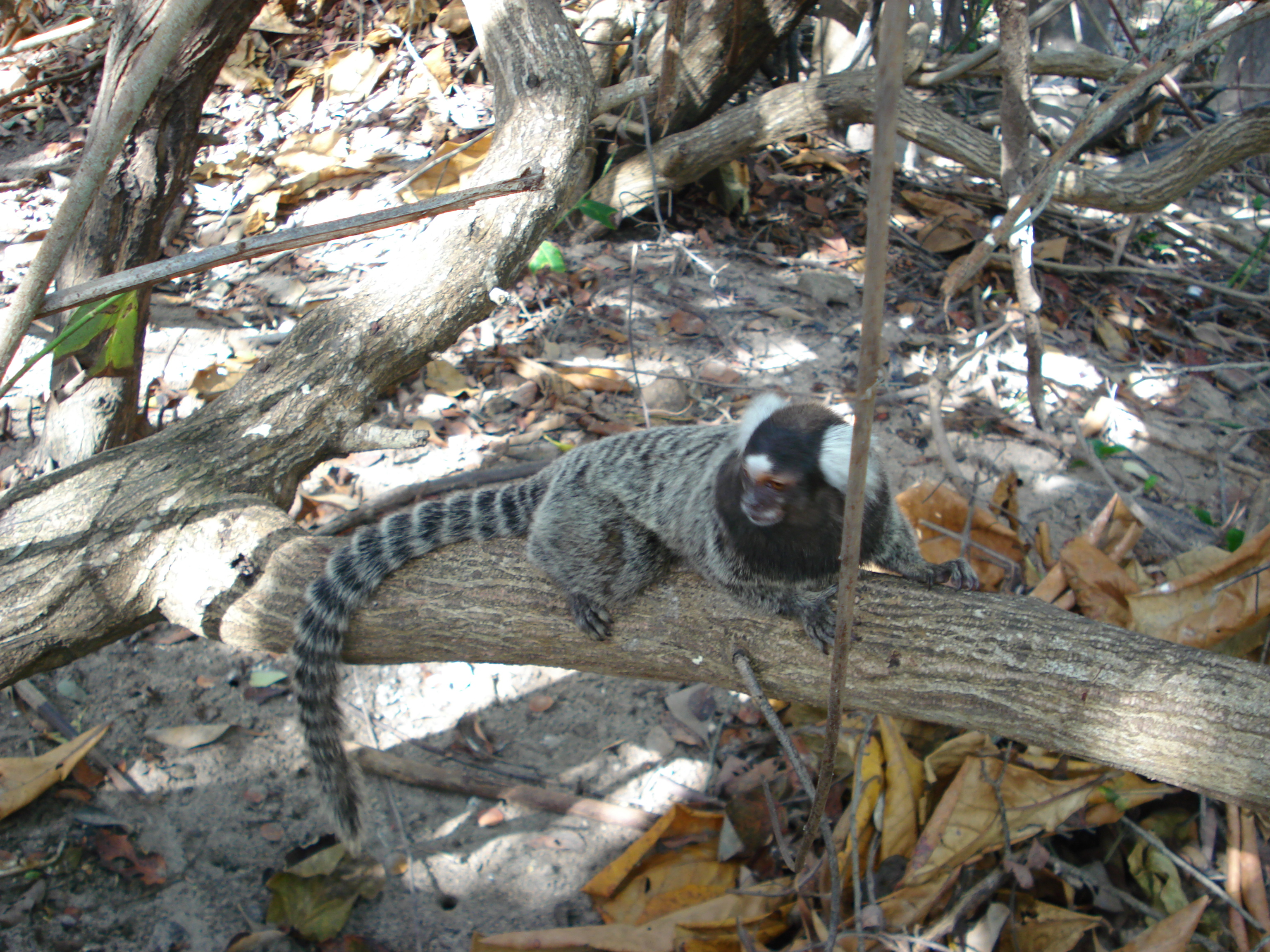 Callithrix jacchus